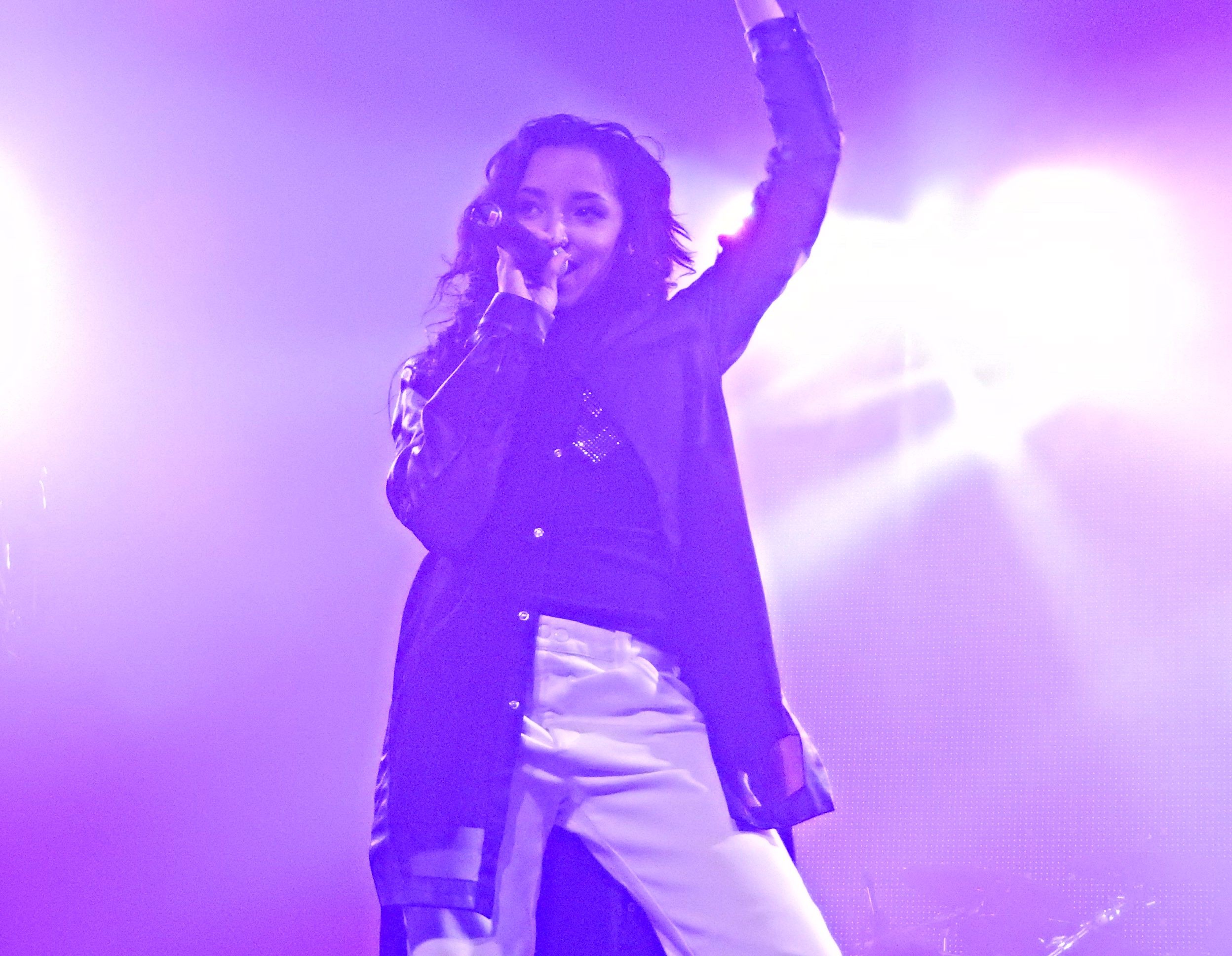 Tinashe performing at Heaven on March 2, 2015.